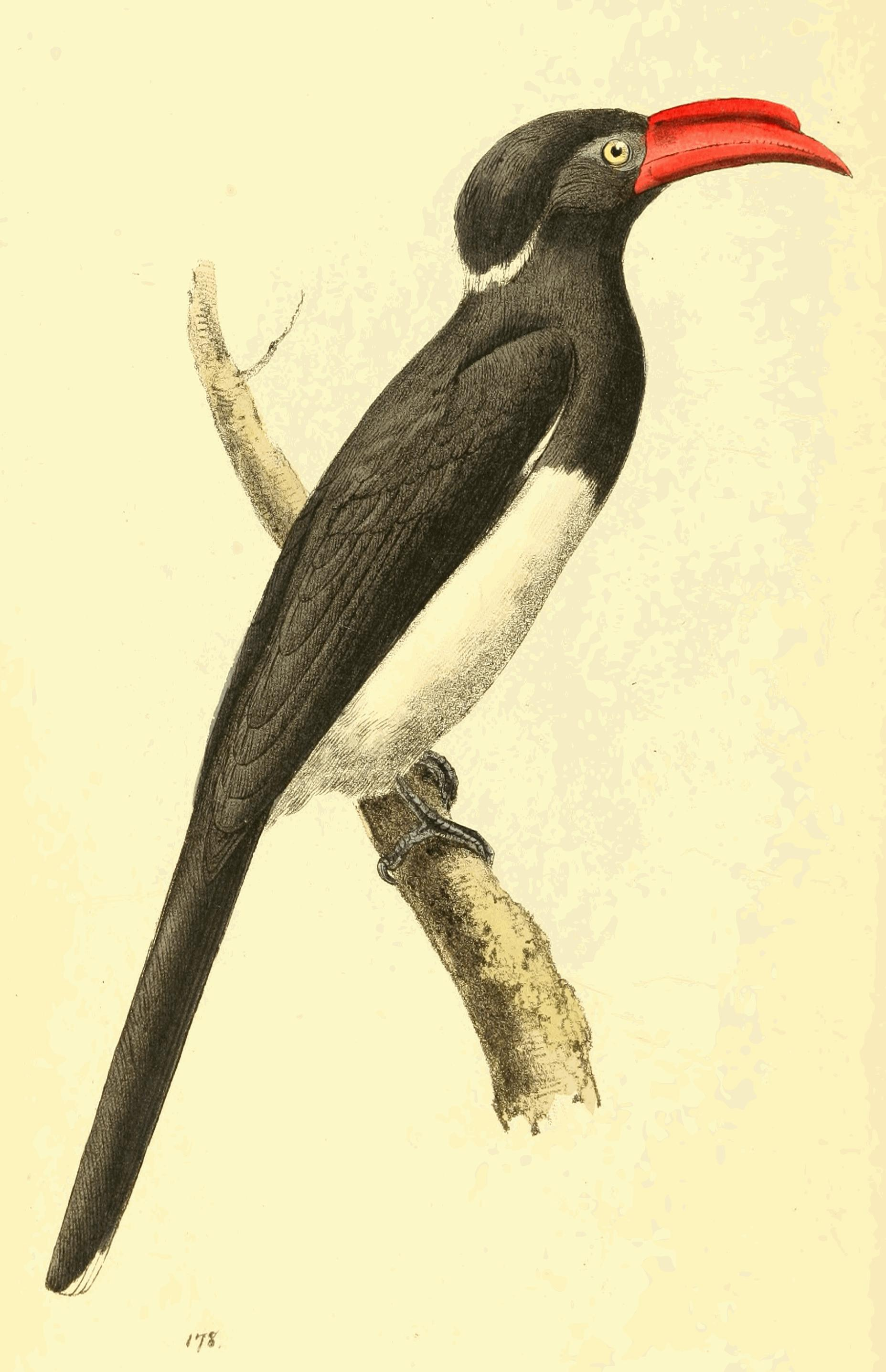 Plate 178. Buceros coronatus (sensu Shaw, nec Boddaert). Coronated Hornbill. Modern accepted name (2012) is Tockus alboterminatus[1].